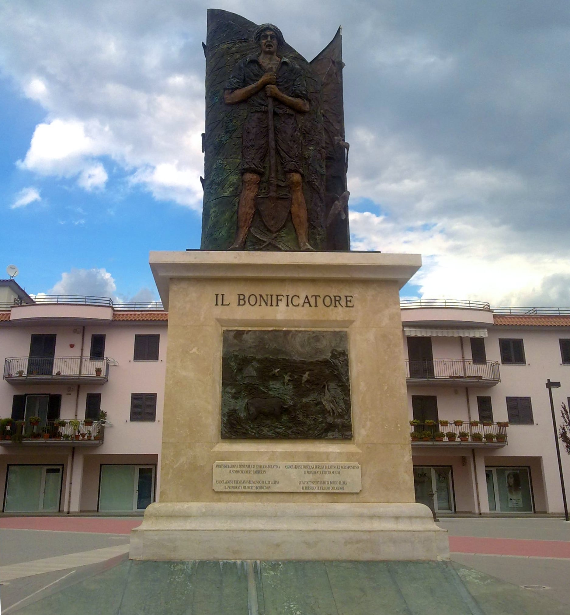 drainager monument in Borgo Flora